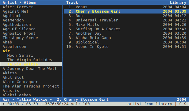 Cmus 2.4.3 Artist/Album view